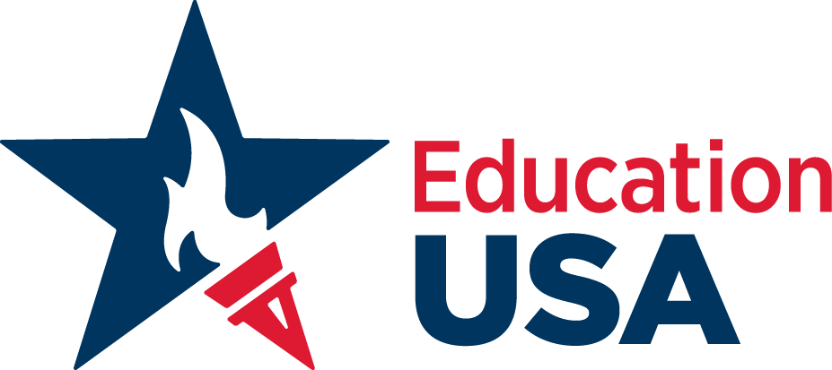 EducationUSA logo - EducationUSA is a U.S. Department of State network of educational advising centers in over 170 countries.